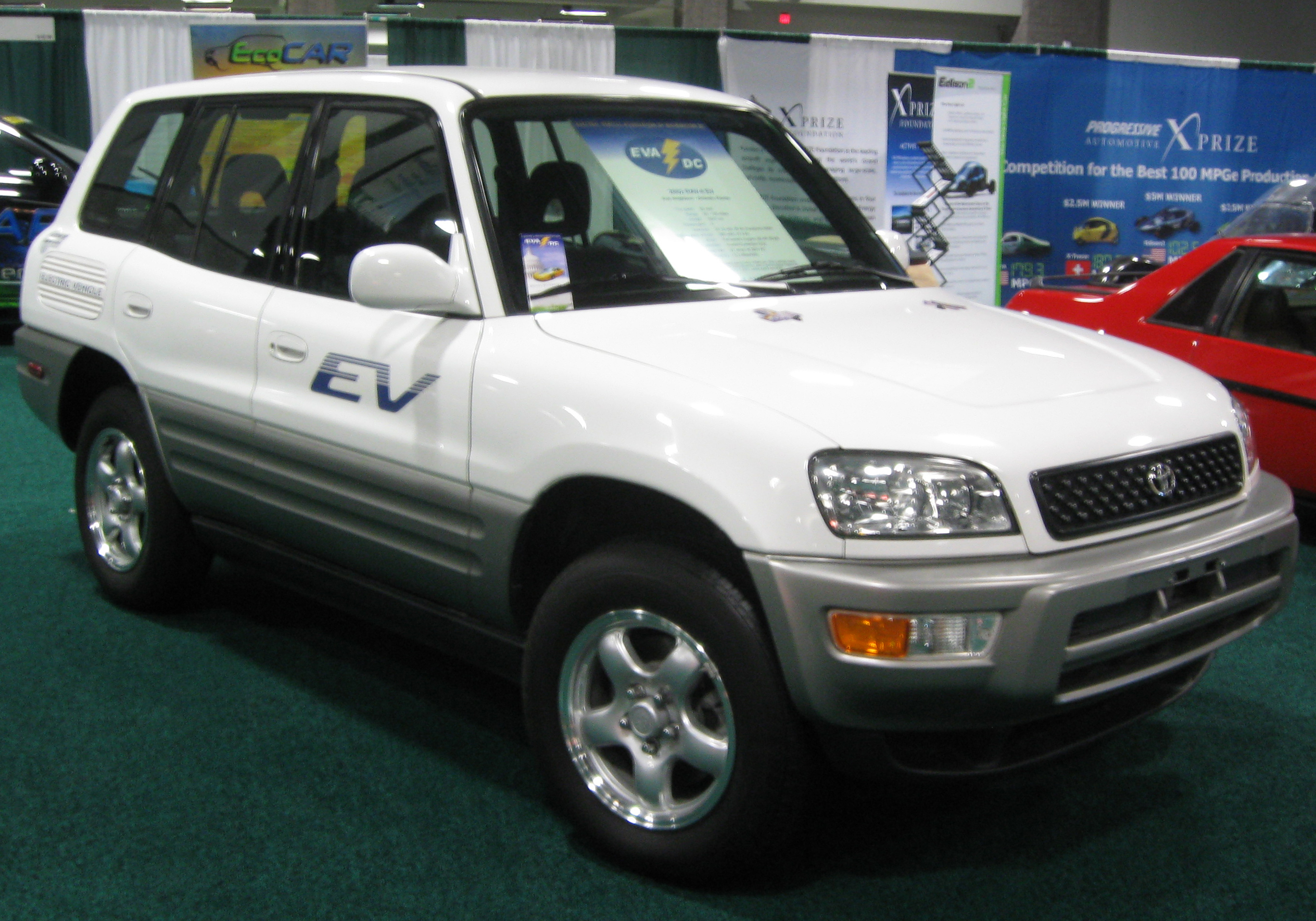 2002 Toyota RAV4 EV photographed at the 2011 Washington (D.C.) Auto Show.